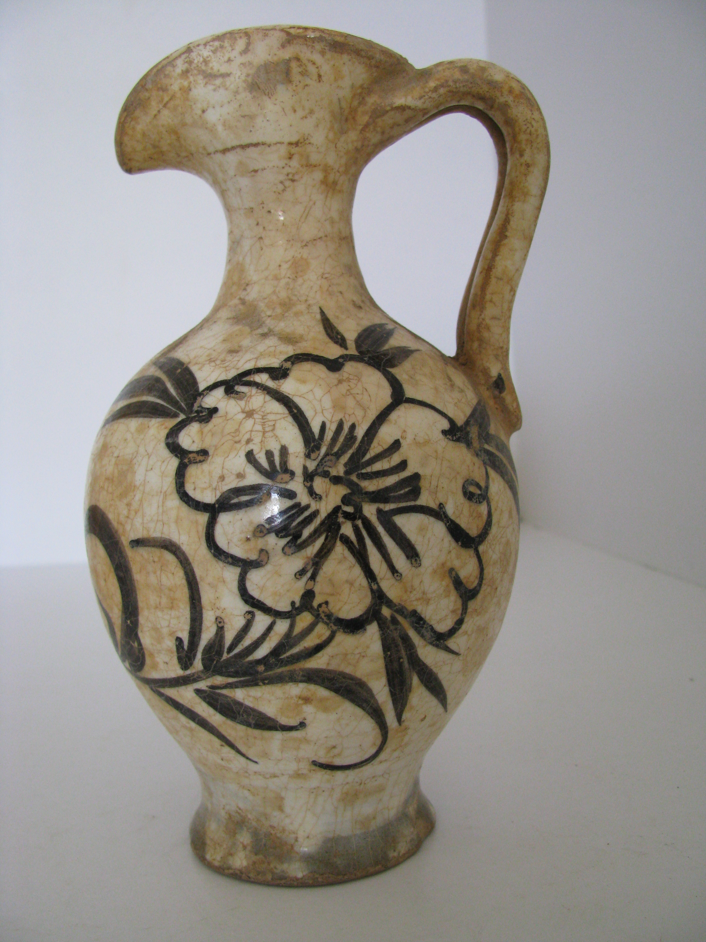 Jin Dynasty white glaze ewer.